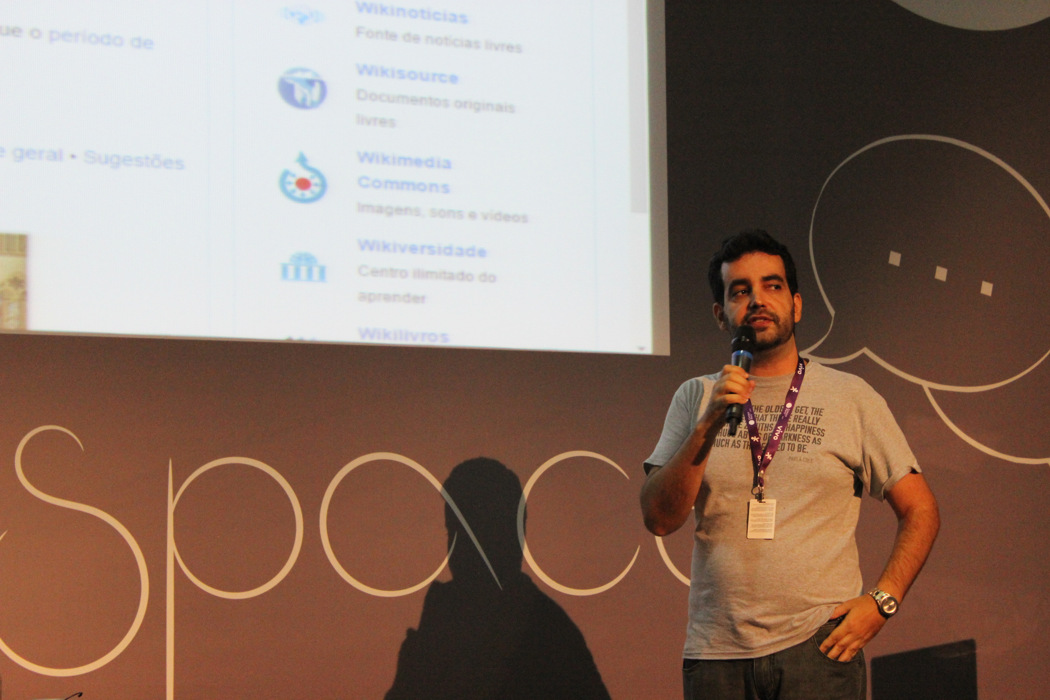 Célio Costa palestrando na CPBR8 sobre a Wikipedia e projetos irmãos